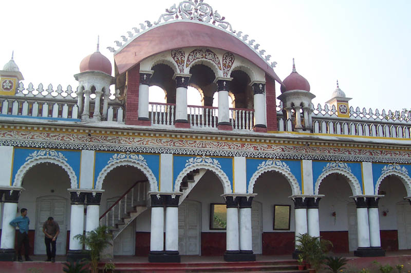 Picture of office building of Nawab estate at Dhonobari, Tangail.